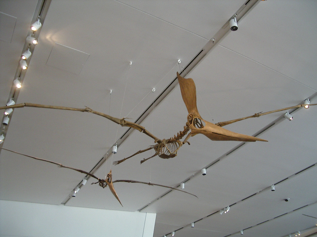 Male and female Pteranodon sternbergi at Royal Ontario Museum.